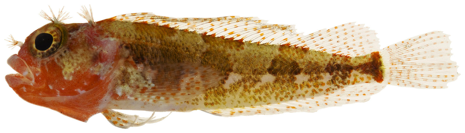 Labrisomus gobio (Valenciennes, 1836)—palehead blenny, 36.2 mm SL. Photo by JT Williams.